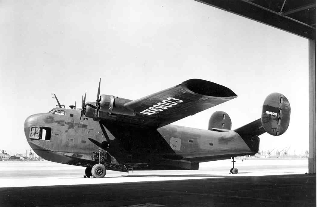 A Consolidated PB2Y-5R Coronado owned by Hughes Aircraft, probably late 1940s. This aircraft, BuNo 7099, is now undergoing restoration at the U.S. Navy National Museum of Naval Aviation at Pensacola, Florida (USA). It was delivered to the U.S. Navy on 12 April 1943 and was outfitted as a flag transport. It shuttled high-ranking officers back and forth between Hawaii and the U.S. West Coast. In August 1945 it transported Rear Admiral Forrest P. Sherman (Deputy CINCPAC) to Tokyo Bay to attend the formal surrender ceremonies ending the Second World War. In the following months it was ordered to China to support the occupation of that nation. It was damaged in a Hurricane and flown back to the United States in November 1945. When ist was stricken from the Navy inventory in August 1946 it was bought by Howard Hughes. It was kept in flying condition until the early 1960s and donated to the National Museum of Naval Aviation in 1977.